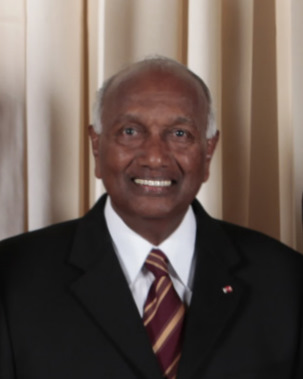 Ramdien Sardjoe, Vice President of the Republic of Suriname, during a reception at the Metropolitan Museum in New York with President Barack Obama and First Lady Michelle Obama.